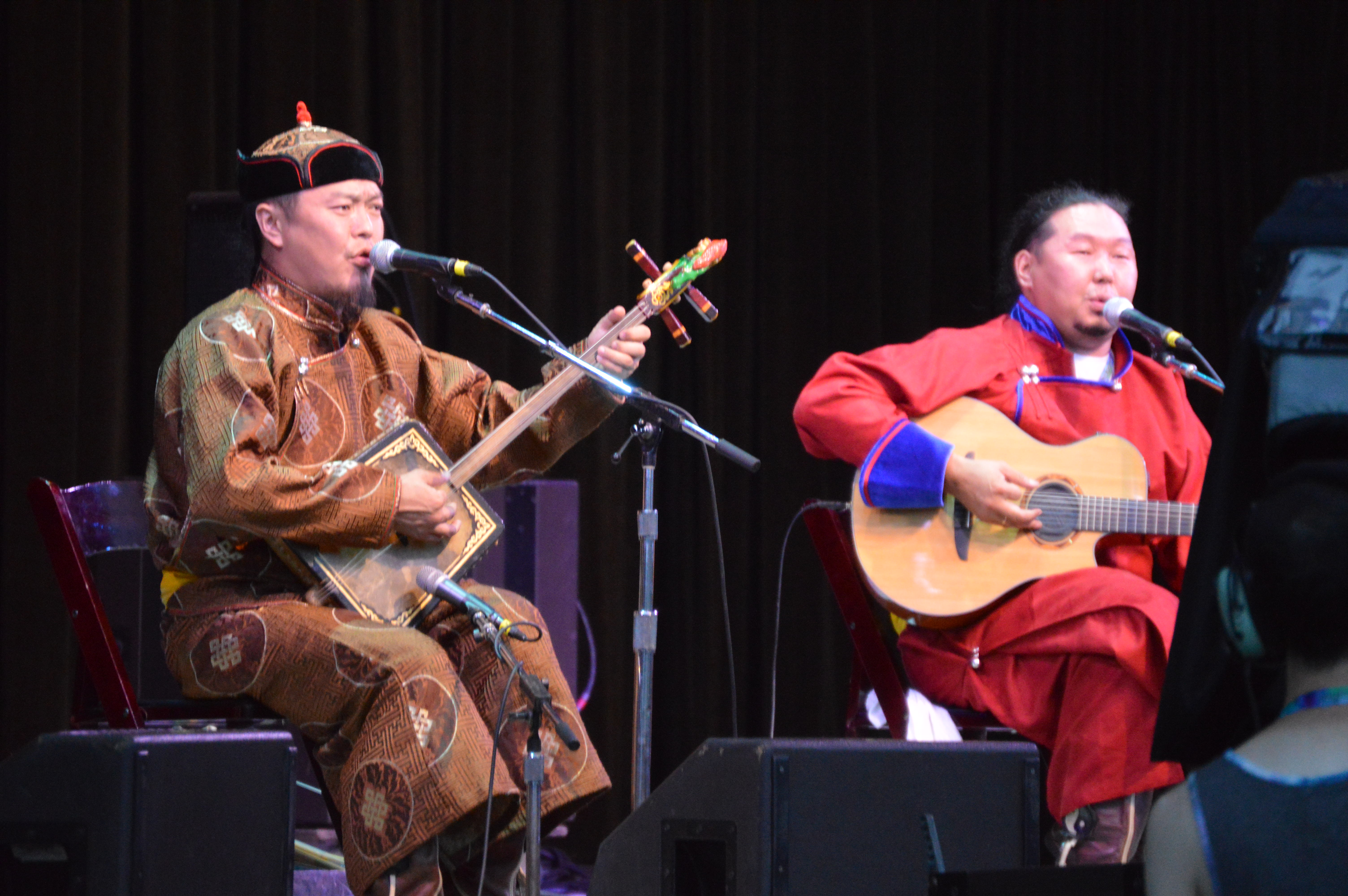 Alash Tuvan throat singers perform on the Main Stage at the Philadelphia Folk Festival 2018